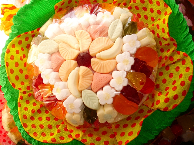 easter decorations